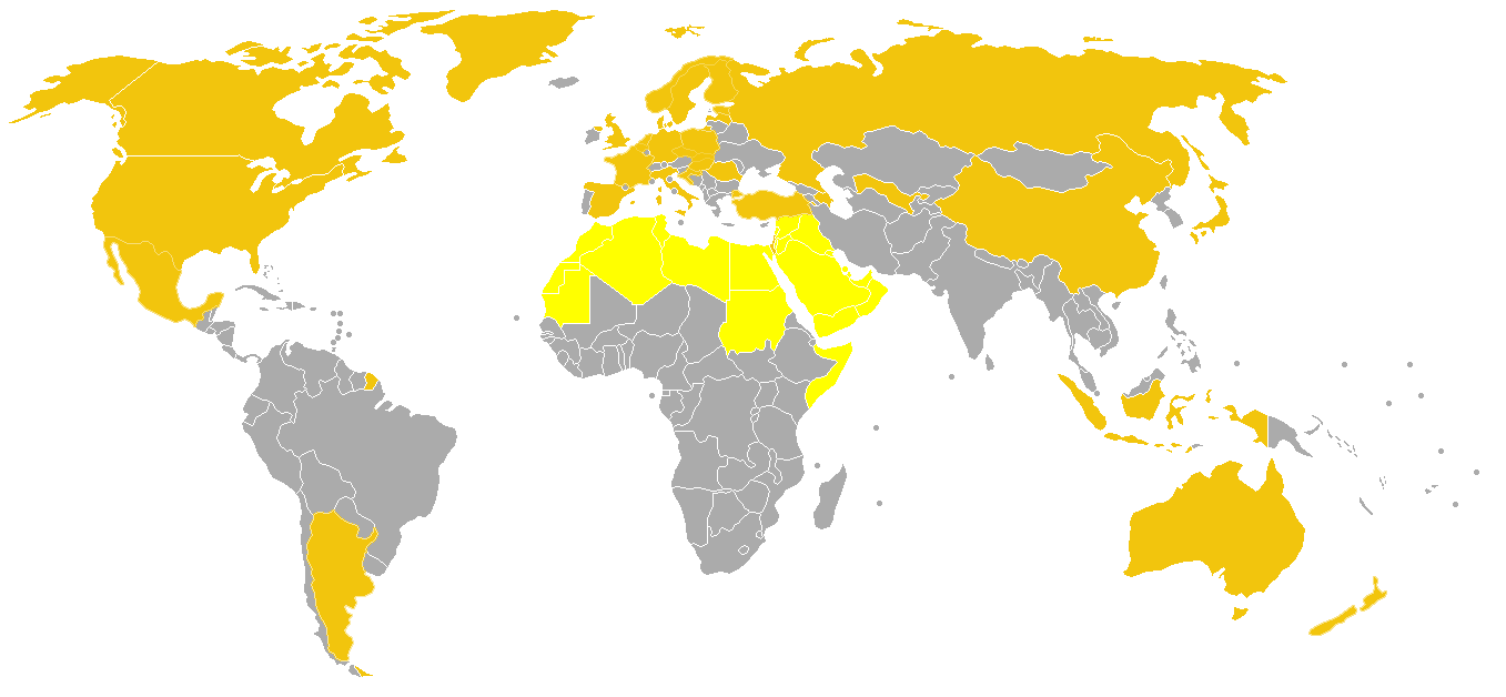 Versions of Jeopardy, as listed on Jeopardy! broadcast information. The countries with their own Jeopardy are the United States, Argentina, Australia, Azerbaijan, Belgium (Flanders), Canada, (Quebec), China, Croatia, Czech Republic, Denmark, Estonia, Finland, France, Germany, Hungary, Indonesia, Israel, Italy, Japan, Latvia, Mexico, the Netherlands, New Zealand, Norway, Poland, Romania, Russia, Slovakia, Spain, Sweden, Turkey, United Kingdom, Uzbekistan, plus the Arab world.